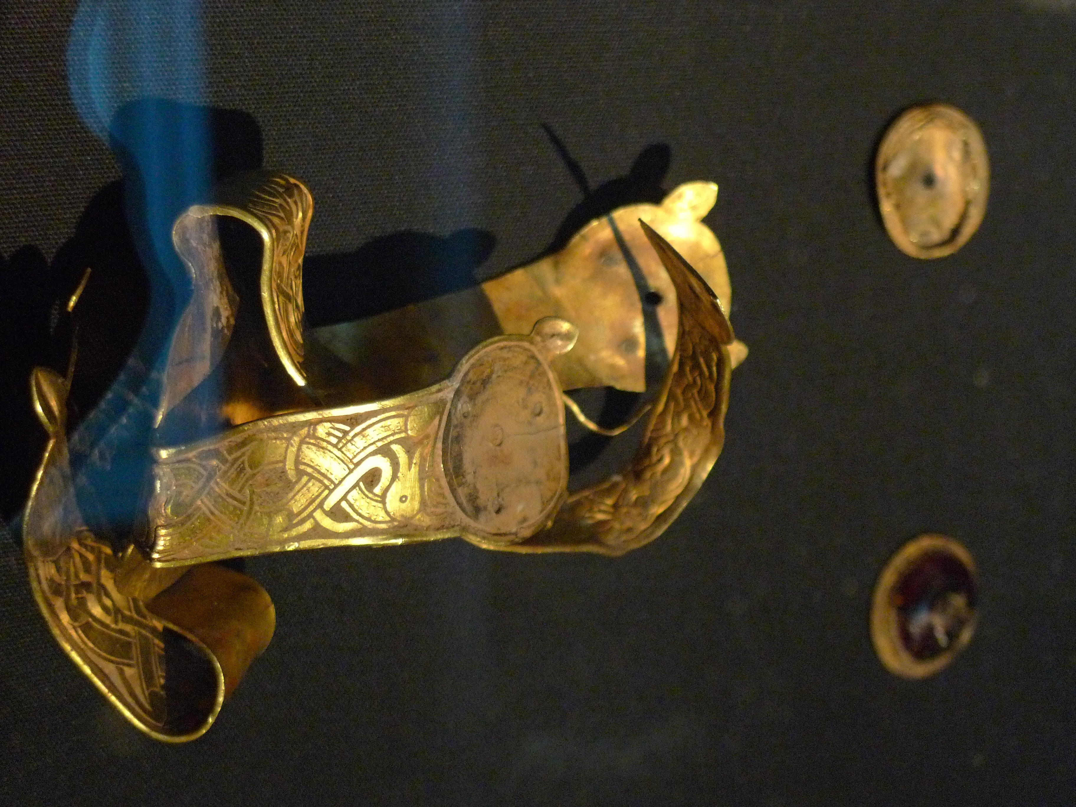 Staffordshire Hoard early medieval folded cross, originally bearing round garnets